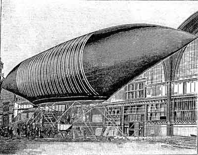 Lebaudy airship from 1902. In front of the Palais de Machines, Paris. This design of the "Lebaudy" was there only once, from November 13 to November 19, 1903